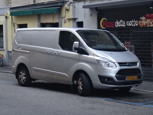 Wed should start seeing our first deliveries of the New Transit Custom in Australia next month (January). I think these will really sell in better numbers than the current Transit, but, all it needs now, is an automatic transmission for our market!